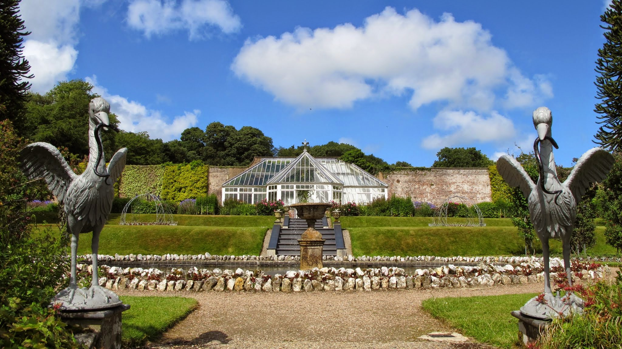 Arlington EX31, UK